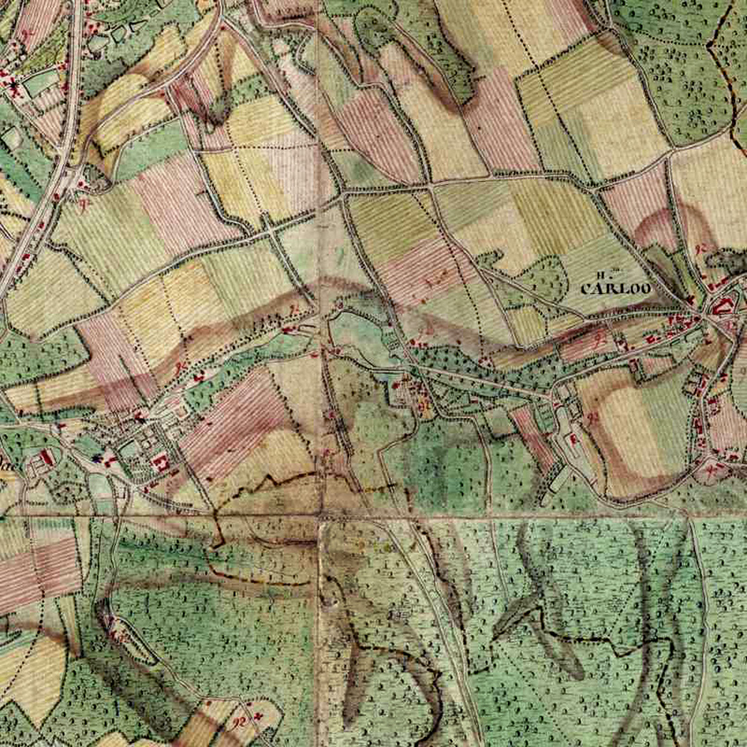 detail of a map from the atlas de ferraris